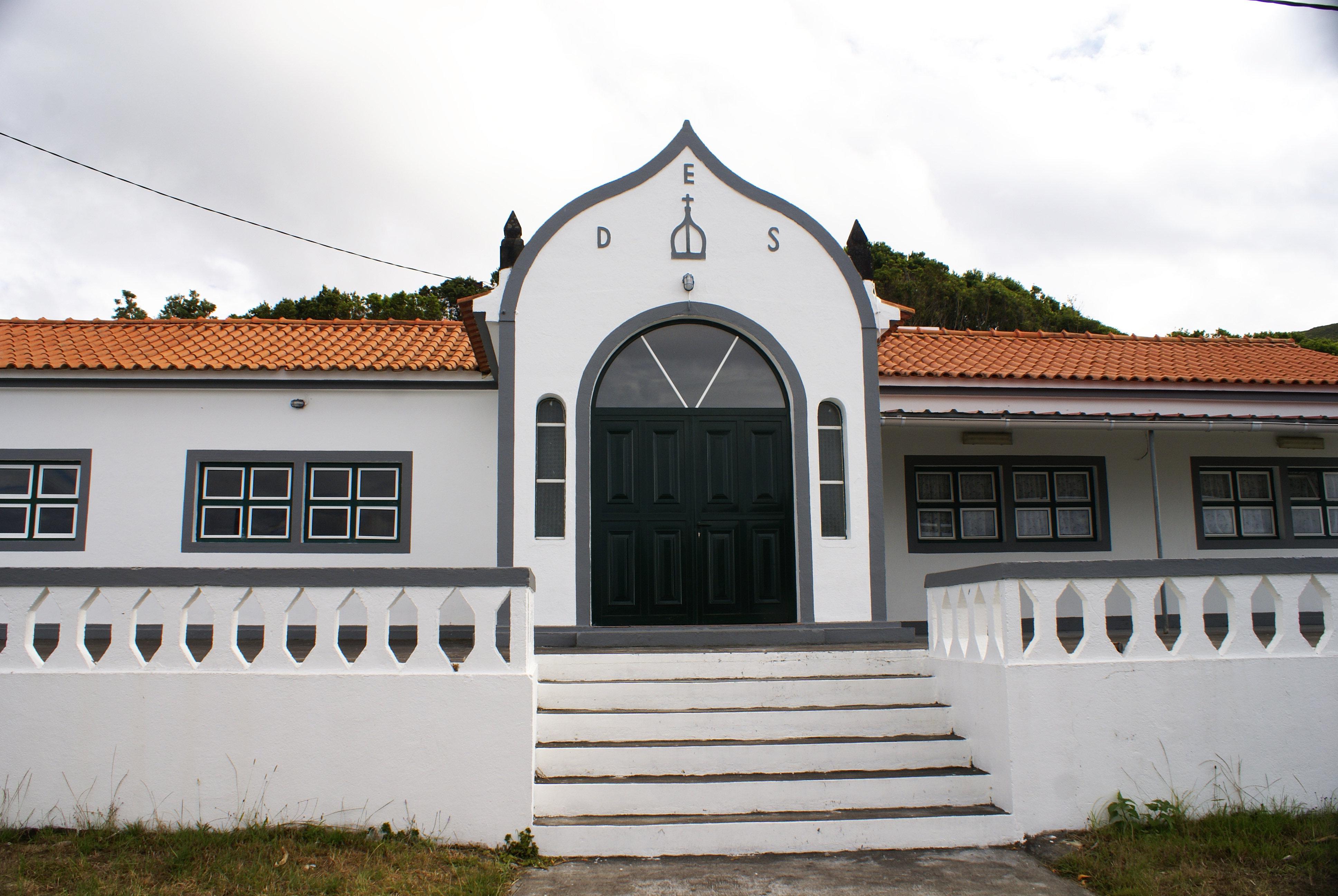 The Império do Espírito Santo of Norte Pequeno, Horta, Faial (Azores), Portugal